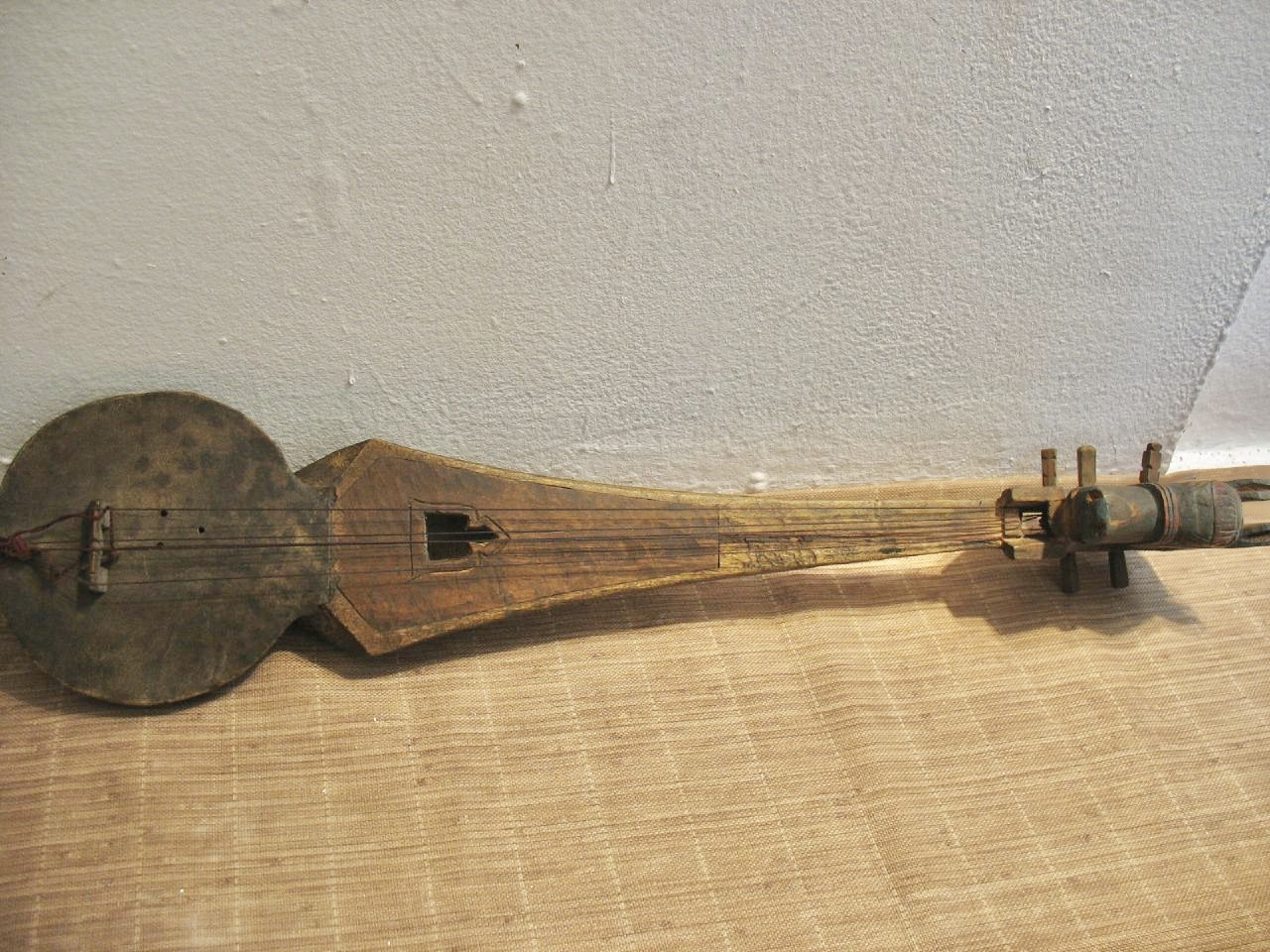 Dranyen